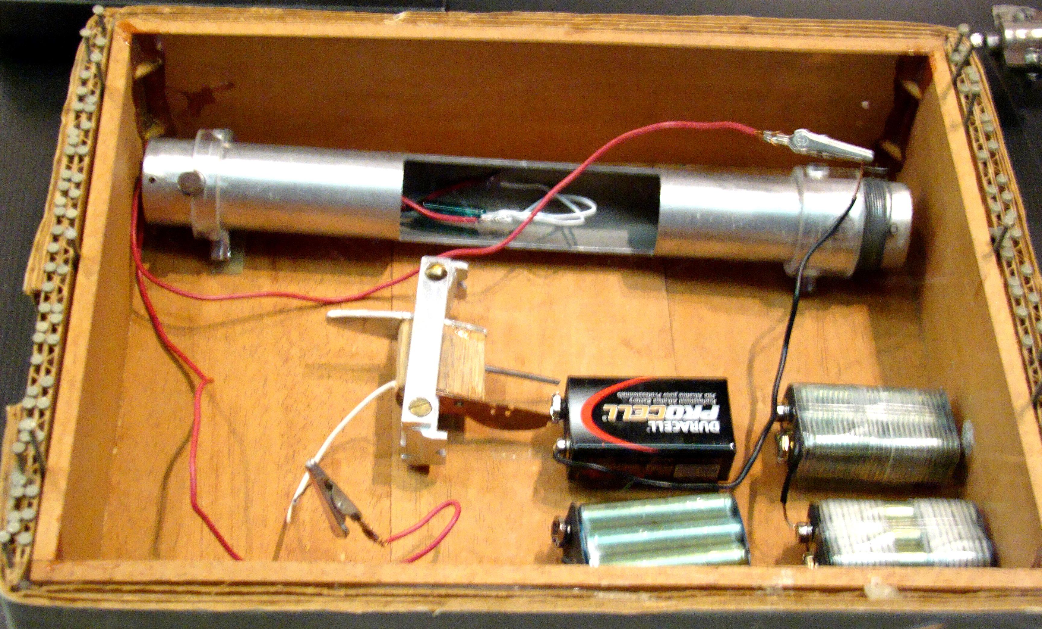 An FBI reproduction of a bomb created by the Unabomber, on display in the Newseum, Washington, D.C.